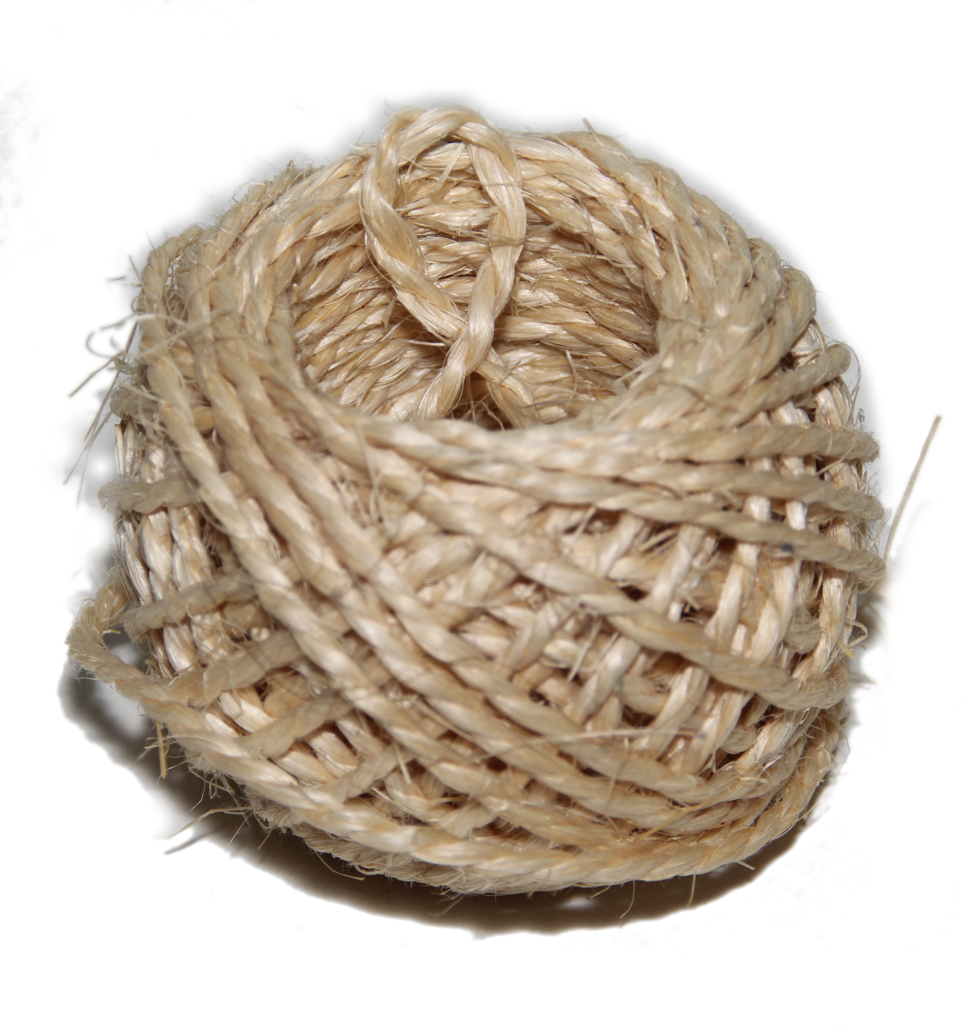 Sisal twine.